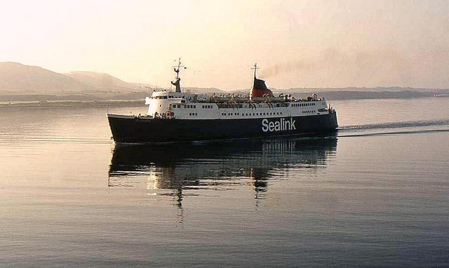 The "Antrim Princess" in Loch Ryan The Sealink (British Railways) passenger/vehicle ferry “Antrim Princess” makes her way along Loch Ryan, accompanied by the rising sun, with the 05.00 sailing to Larne.